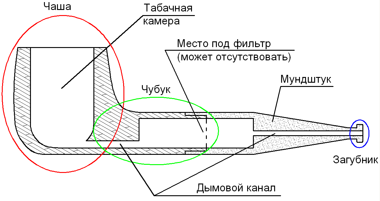 Parts of a tobacco pipe: bowl (red), stem (green) and moutpiece (blue)